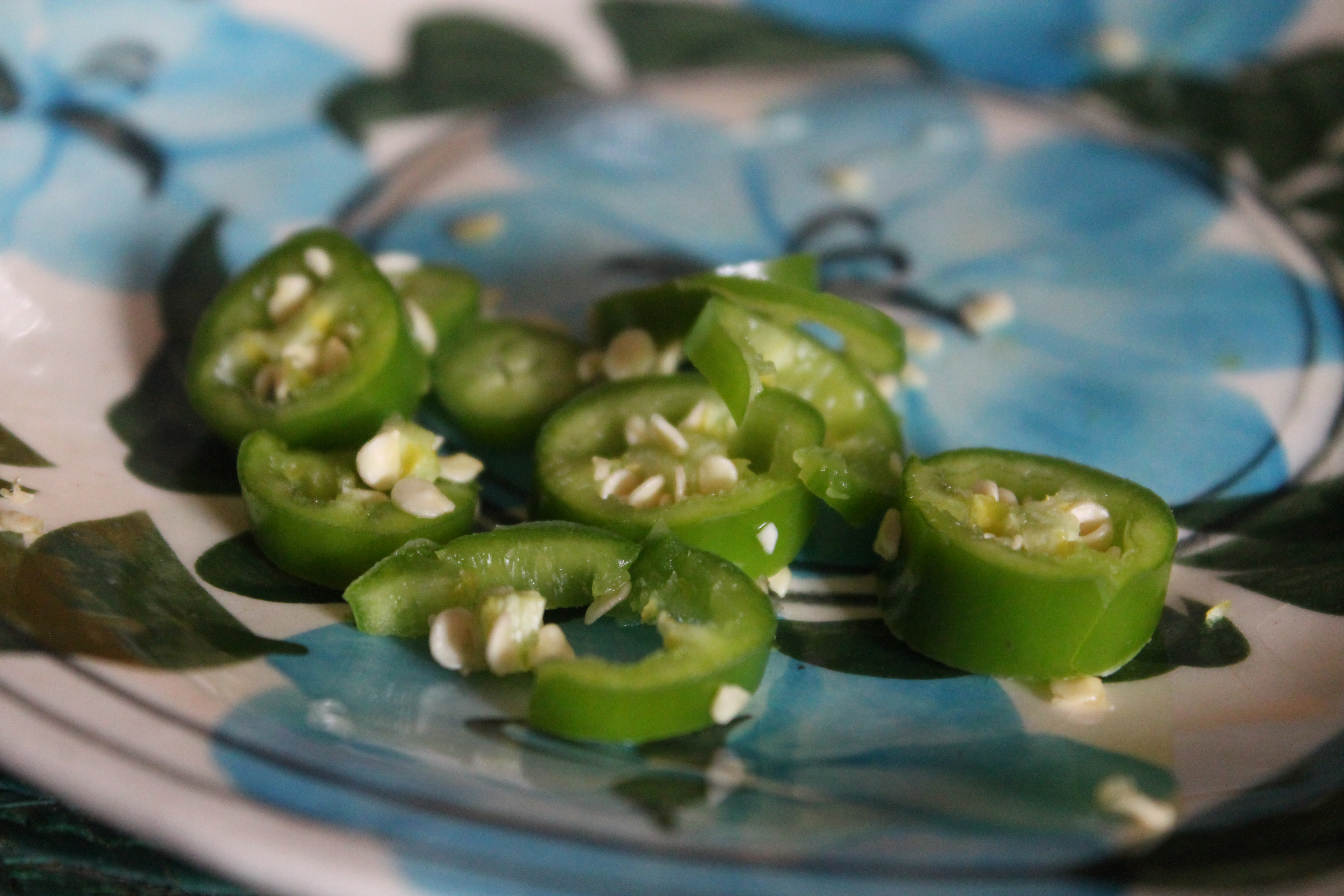 Slices of fresh jalapeño (Capsicum annuum)